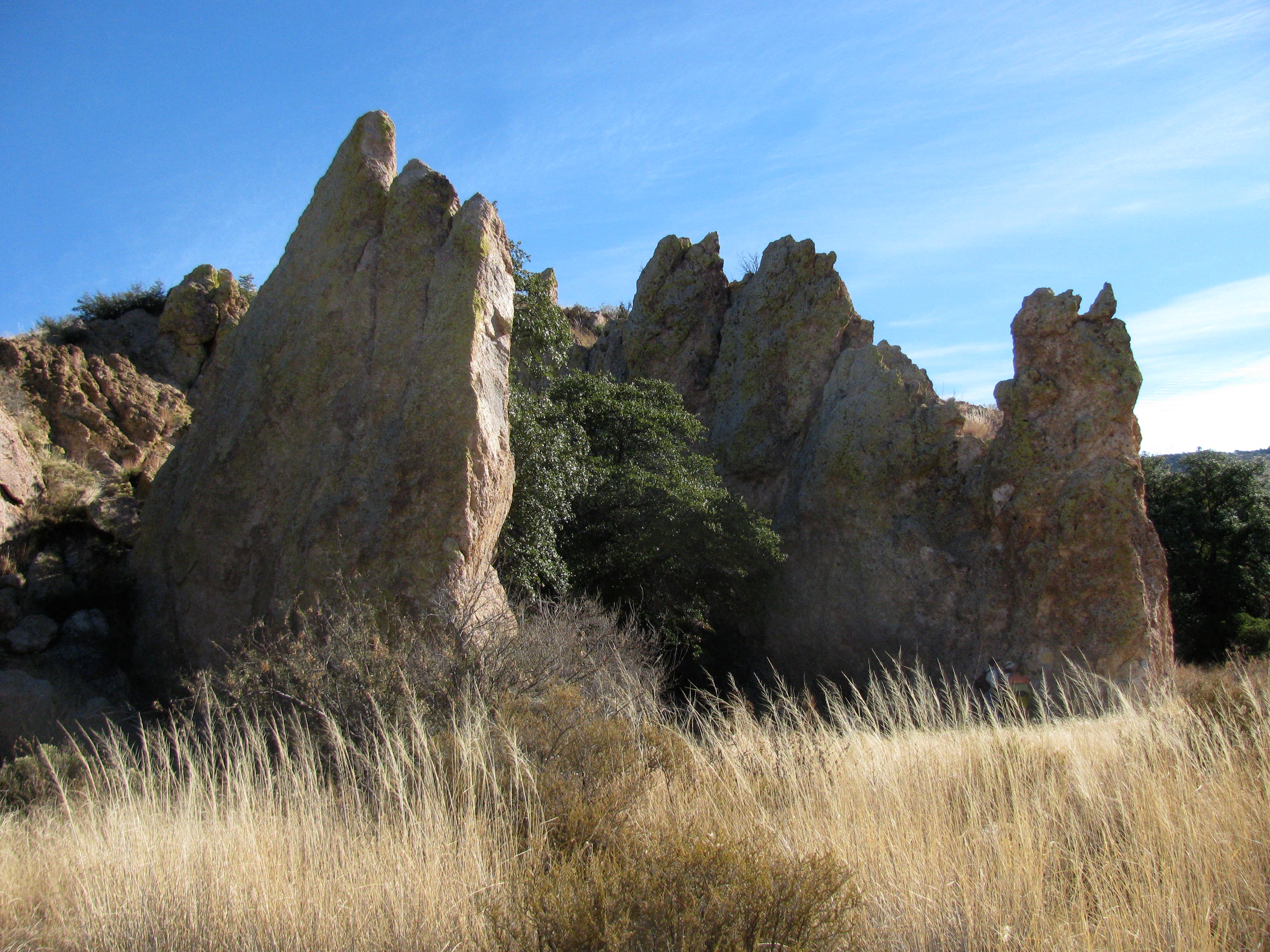 A well known landmark in Skeleton Canyon, the Devils Kitchen is a large free standing rock enclosure at the mouth of the canyon.